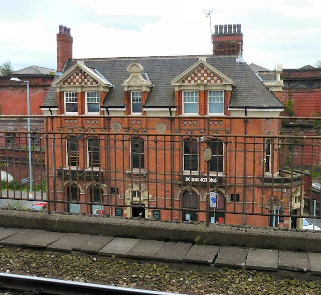 Star & Garter The Star and Garter on Fairfield Street as viewed from platform 14 of Piccadilly Station.